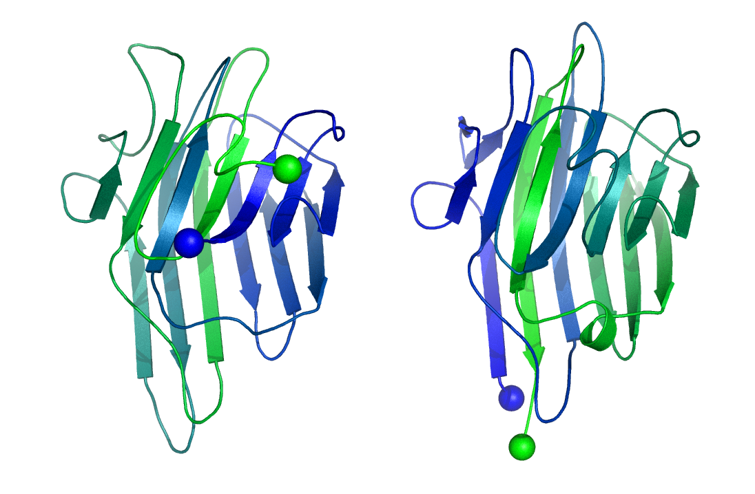 Two proteins that are related by a circular permutation: (left) Concanavalin A (PDB: 3cna​), and (right) Peanut Lectin (PDB: 2pel​). The termini of the proteins are highlighted by blue and green spheres, and the sequence of residues is indicated by the gradient from blue (N-terminus) to green (C-terminus).